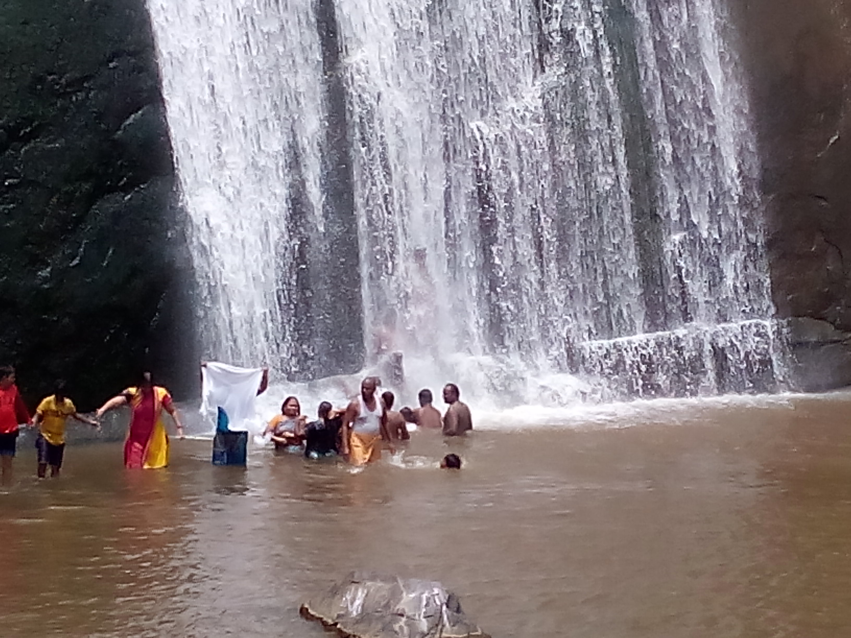 அருவி